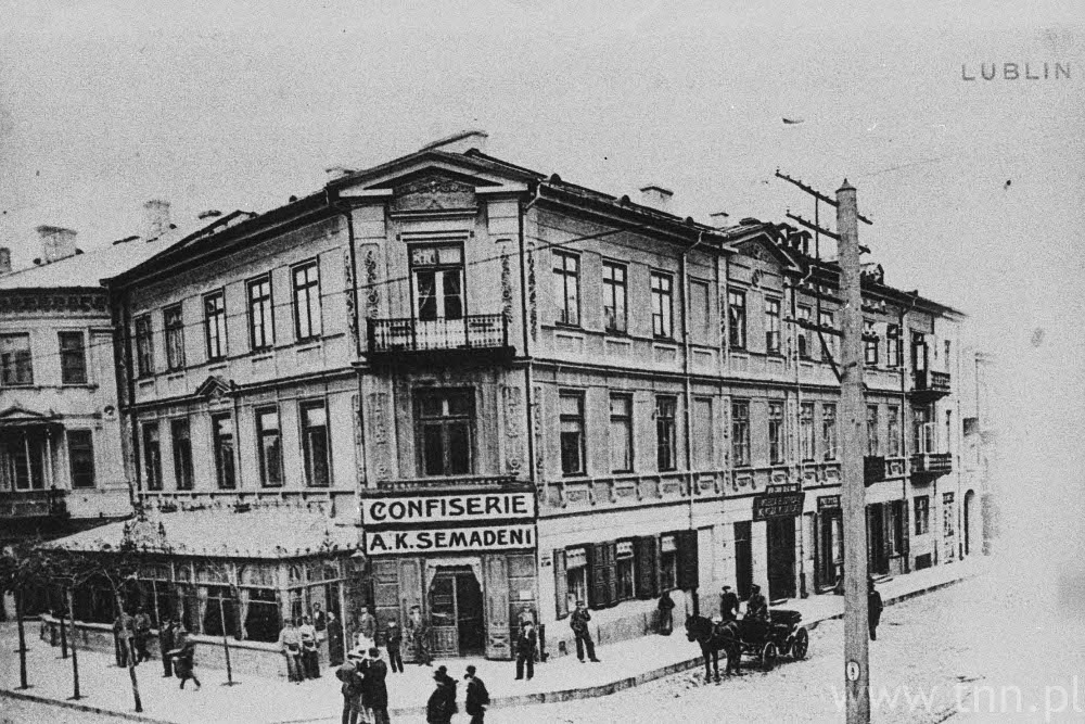 Confectionery opened in 1827 by Andrea Semadeni in Lublin, at 27, Krakowskie Przedmieście street.